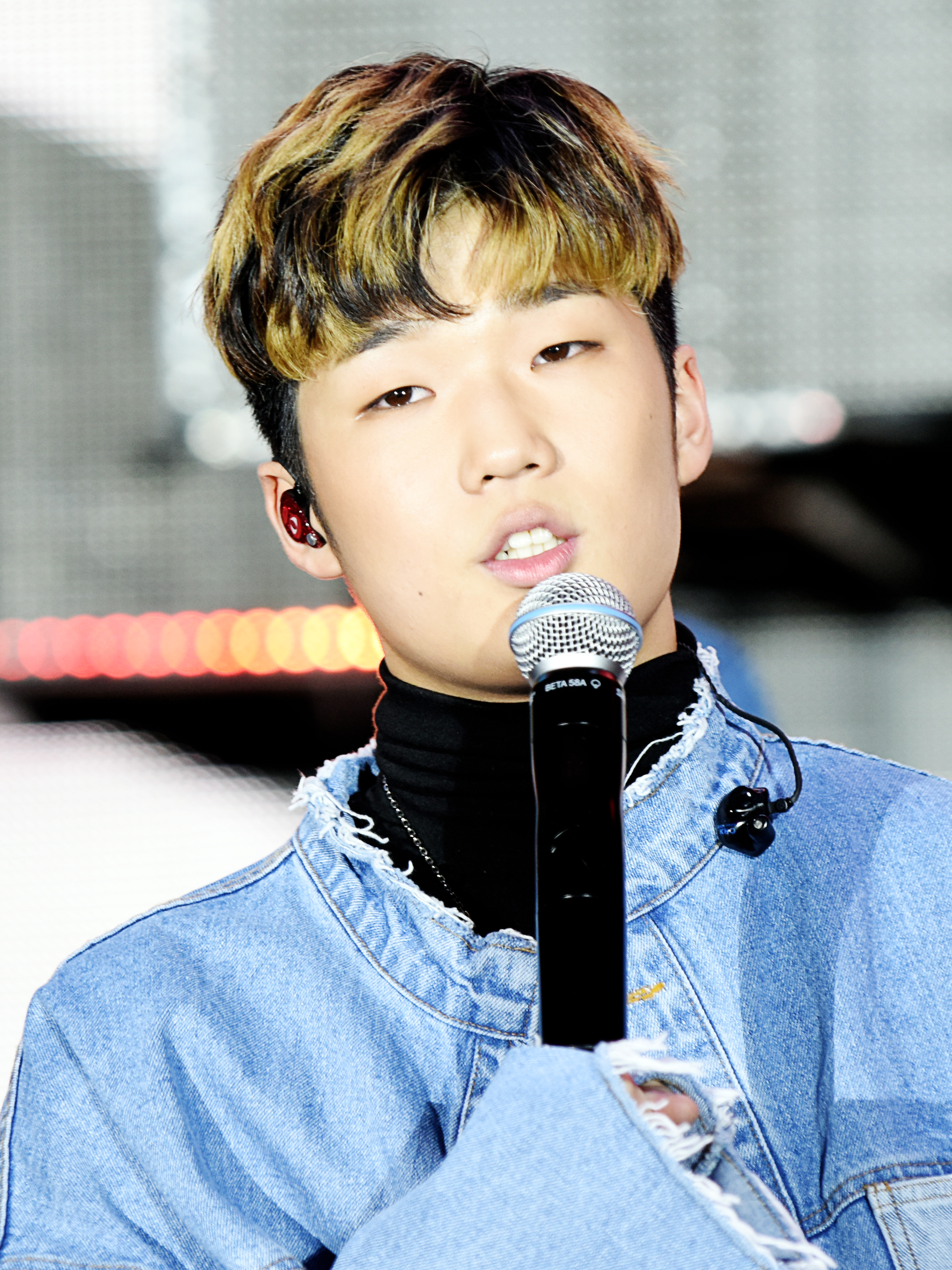 Kim Ha-on performing at the C-Festival in Gangnam on May 6, 2019.